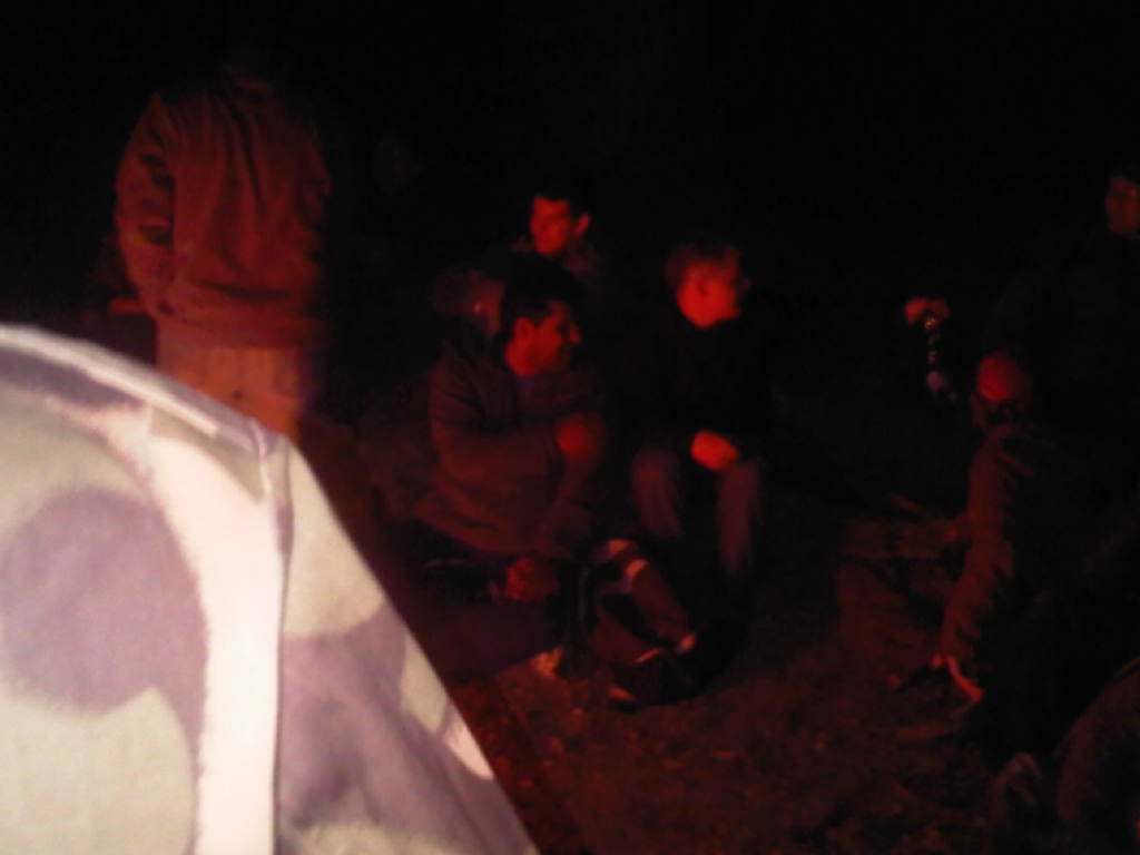 At the fire of the Hungarian tradition Bárányles (vigil of the Lamb). Male inhabitants of Hosszúhetény and other villages climb the Zengő mountain at night on Easter Sundays to wait for dawn and the arrival of the "Lamb" near an old cross on the mountainside.